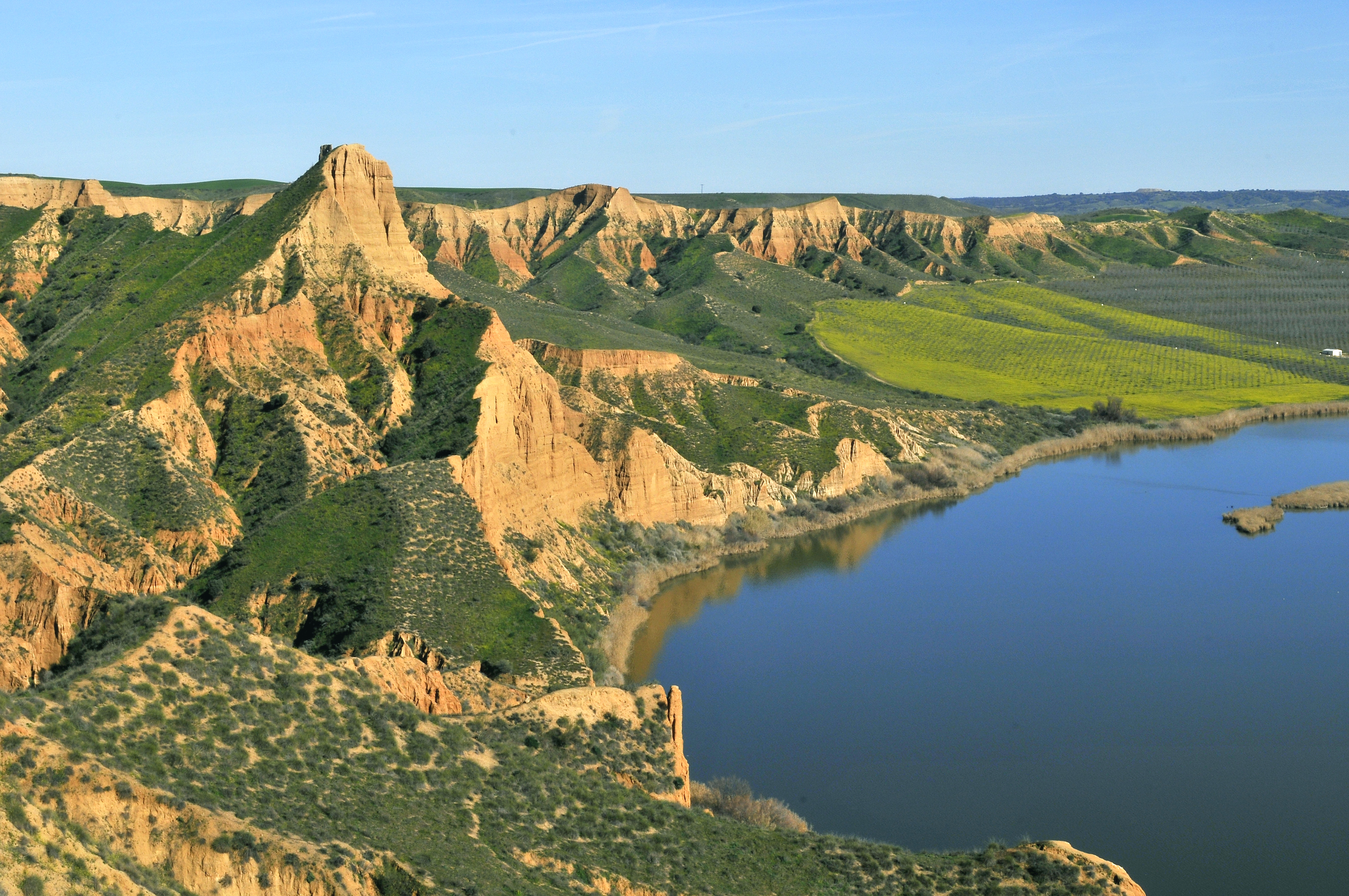 Las Barrancas [ravine bad lands] and Castrejón reservoir. Burujón, Toledo, Castile-La Mancha, Spain